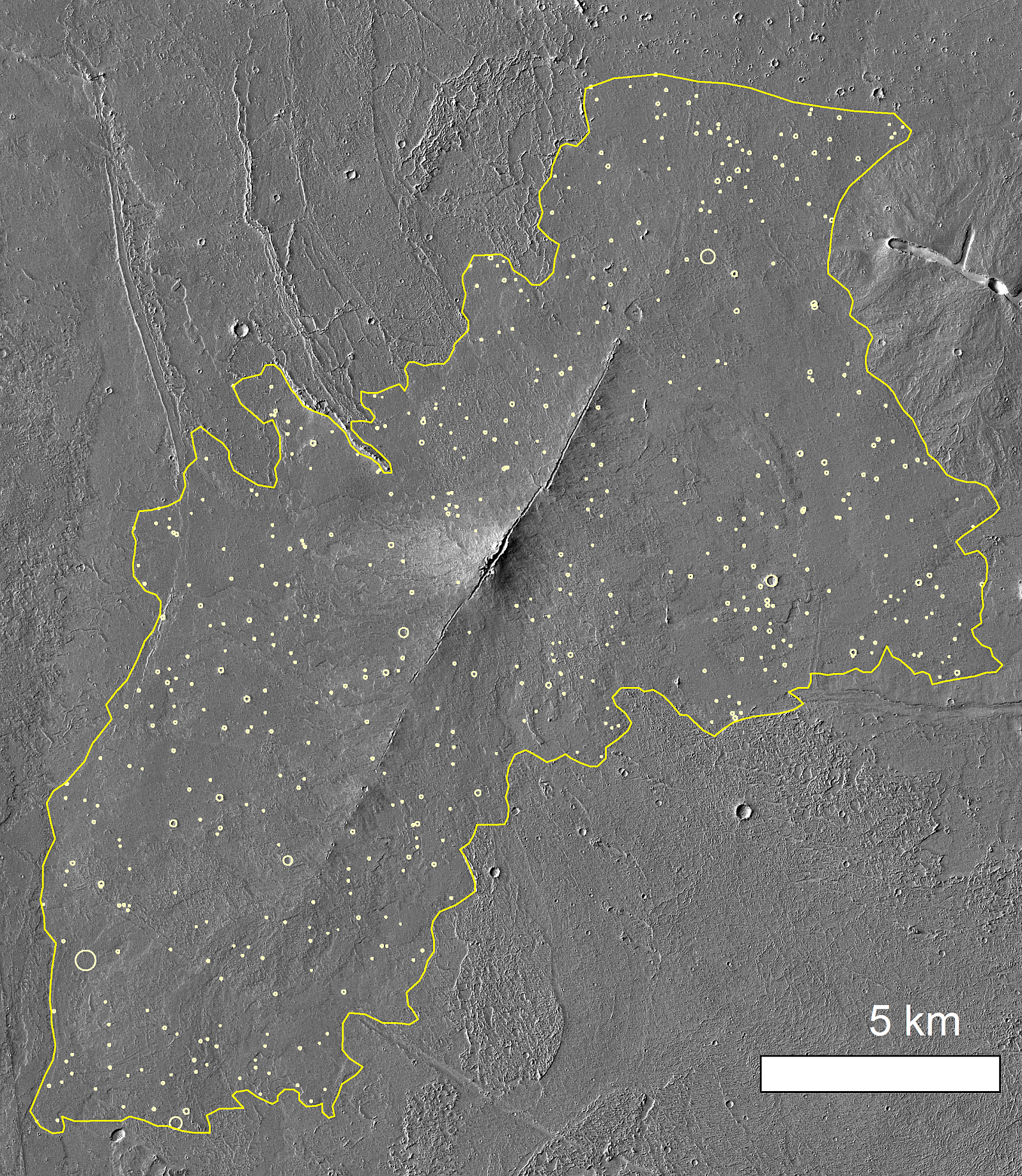 Fissure volcano in Tharsis region on Mars with crater counting, method using to establish the age on planetary surface.